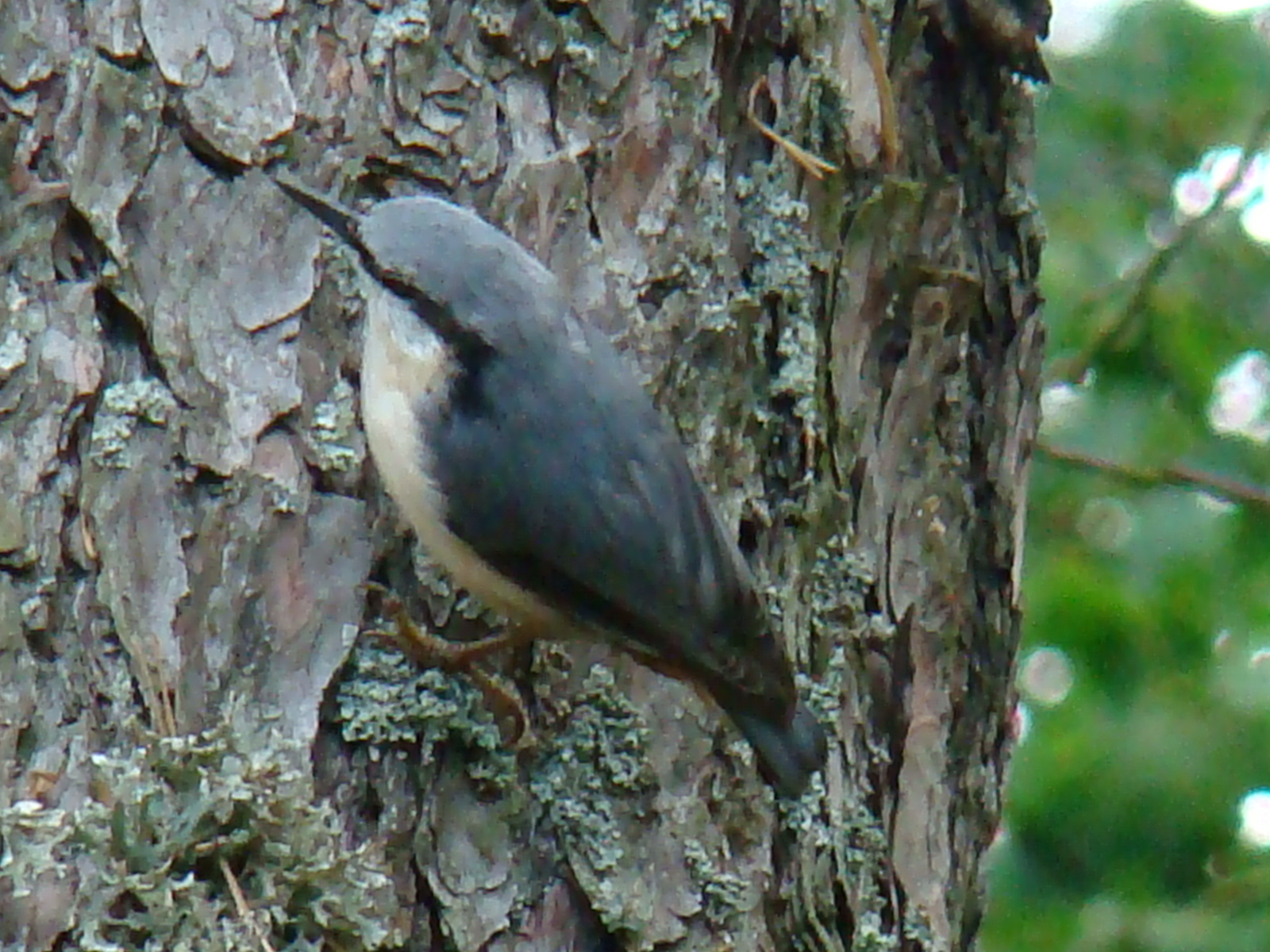 Photo of the Eurasian Nuthatch (Sitta europaea) in in Palanga, Lithuania.